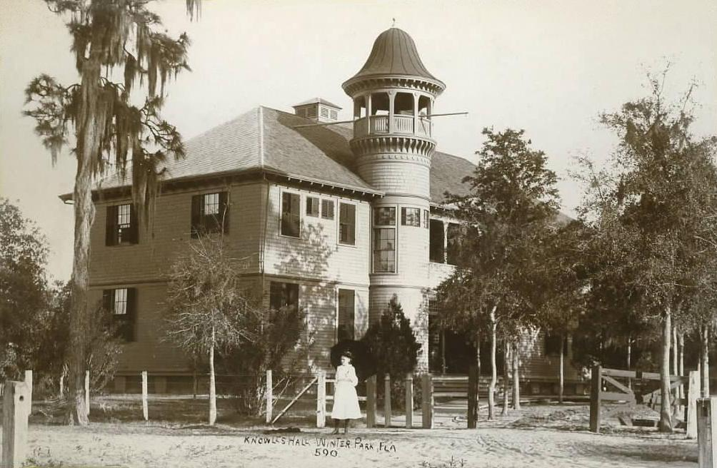 Knowles Hall, Rollins College, Winter Park, Florida. Built in 1886 as the school's first classroom building, it burned on December 1, 1909.